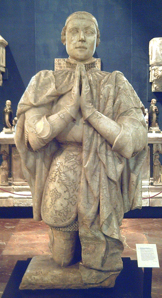 Praying statue of Peter I of Castile.